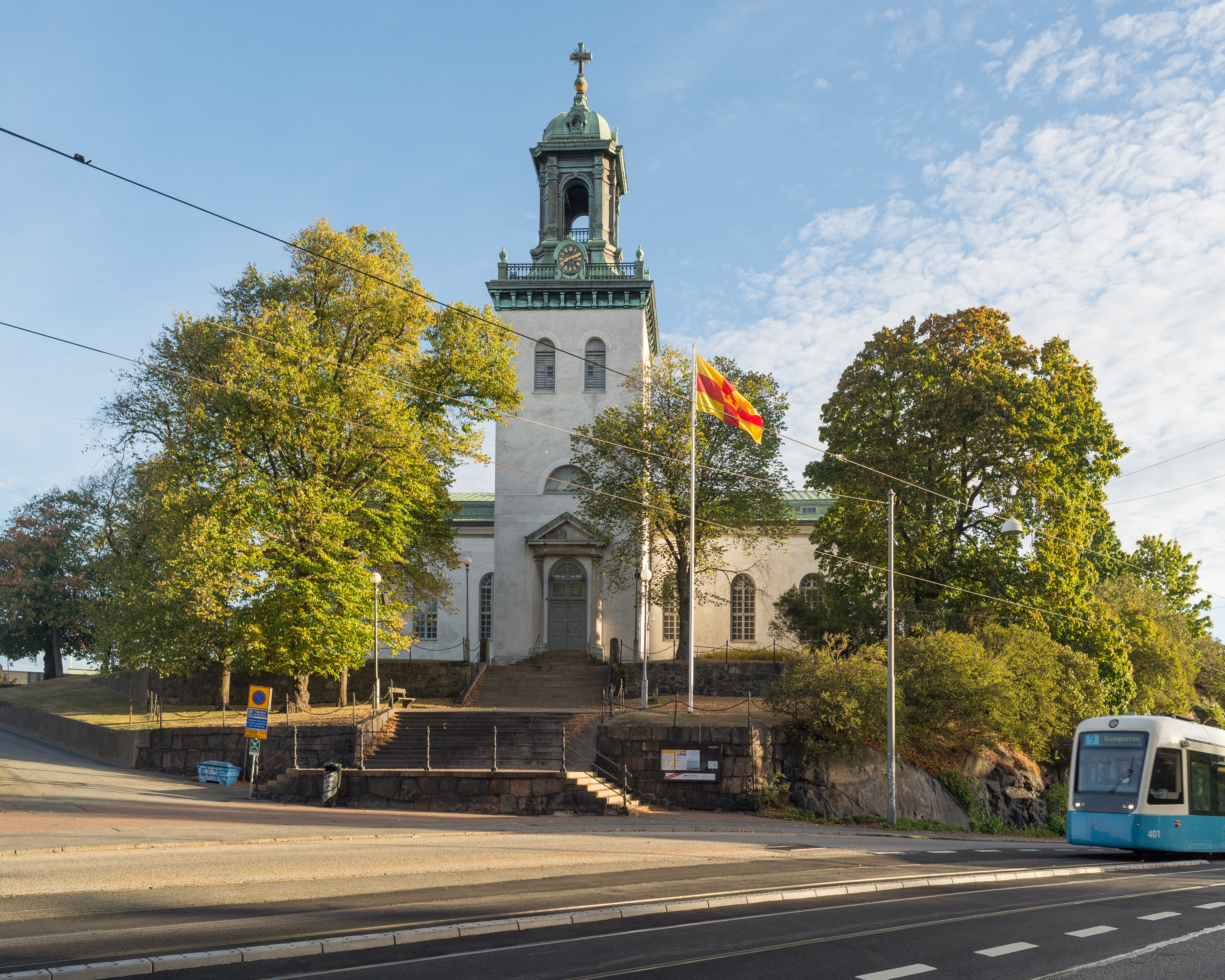 Carl Johans kyrka (church) built 1823 in Göteborg, Sweden.